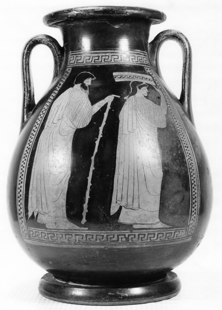 Attic Red-Figure Pelike (Storage Vessel) Early Classical Geography: Europe, Greece, Attica Classification: Containers and Vessels; Vessels; Pelikai